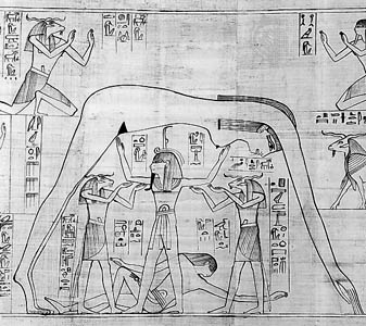 A picture of Geb from the Greenfield papyrus From the British Museum Ink on papyrus From Deir el-Bahri, the “Royal Cache” Early 22nd Dynasty, about 940 bc Height 47.00 cm Donated by Mrs. Greenfield in 1910